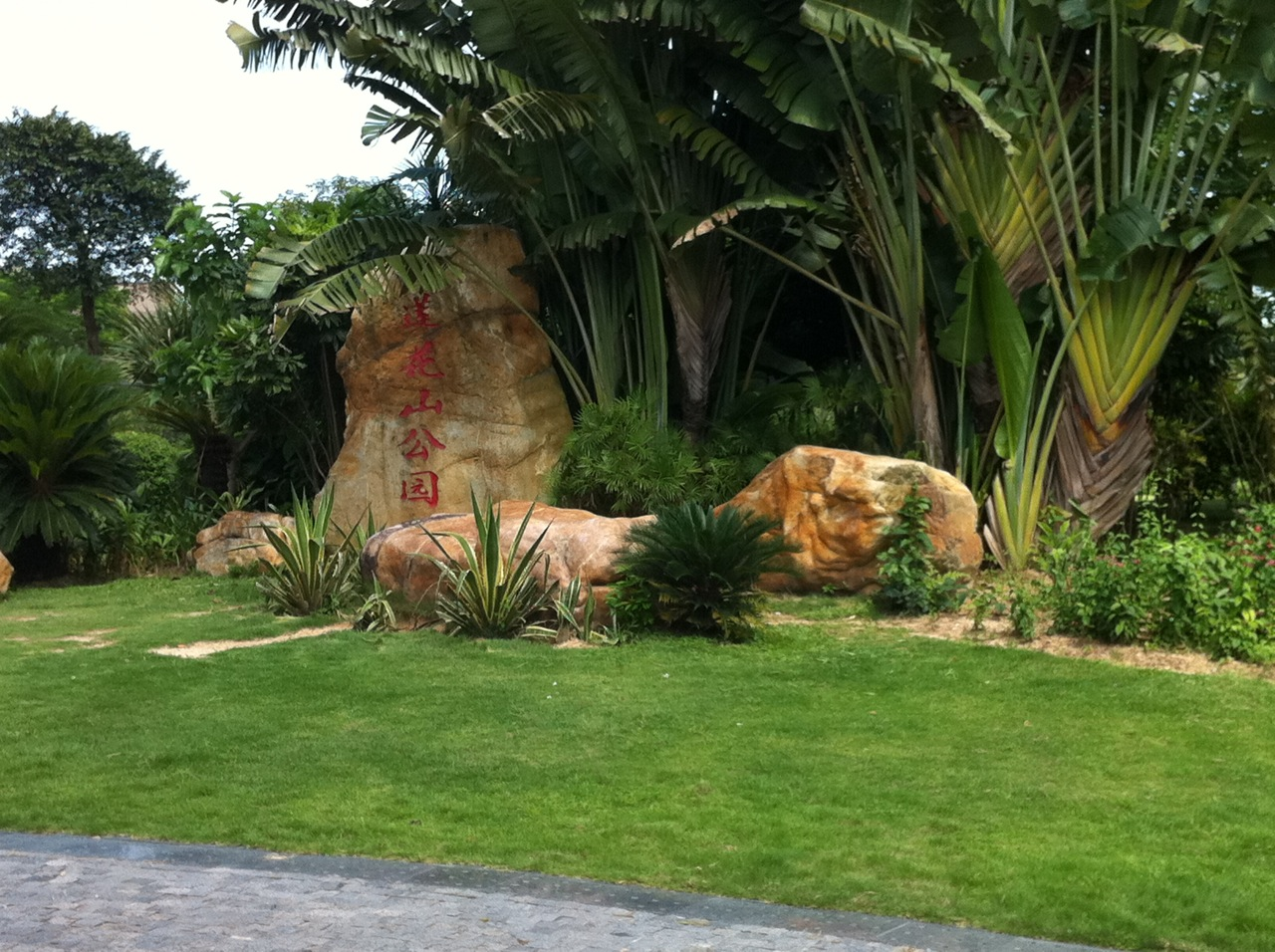 South-east Entrance, Lianhuashan Park, Shenzhen